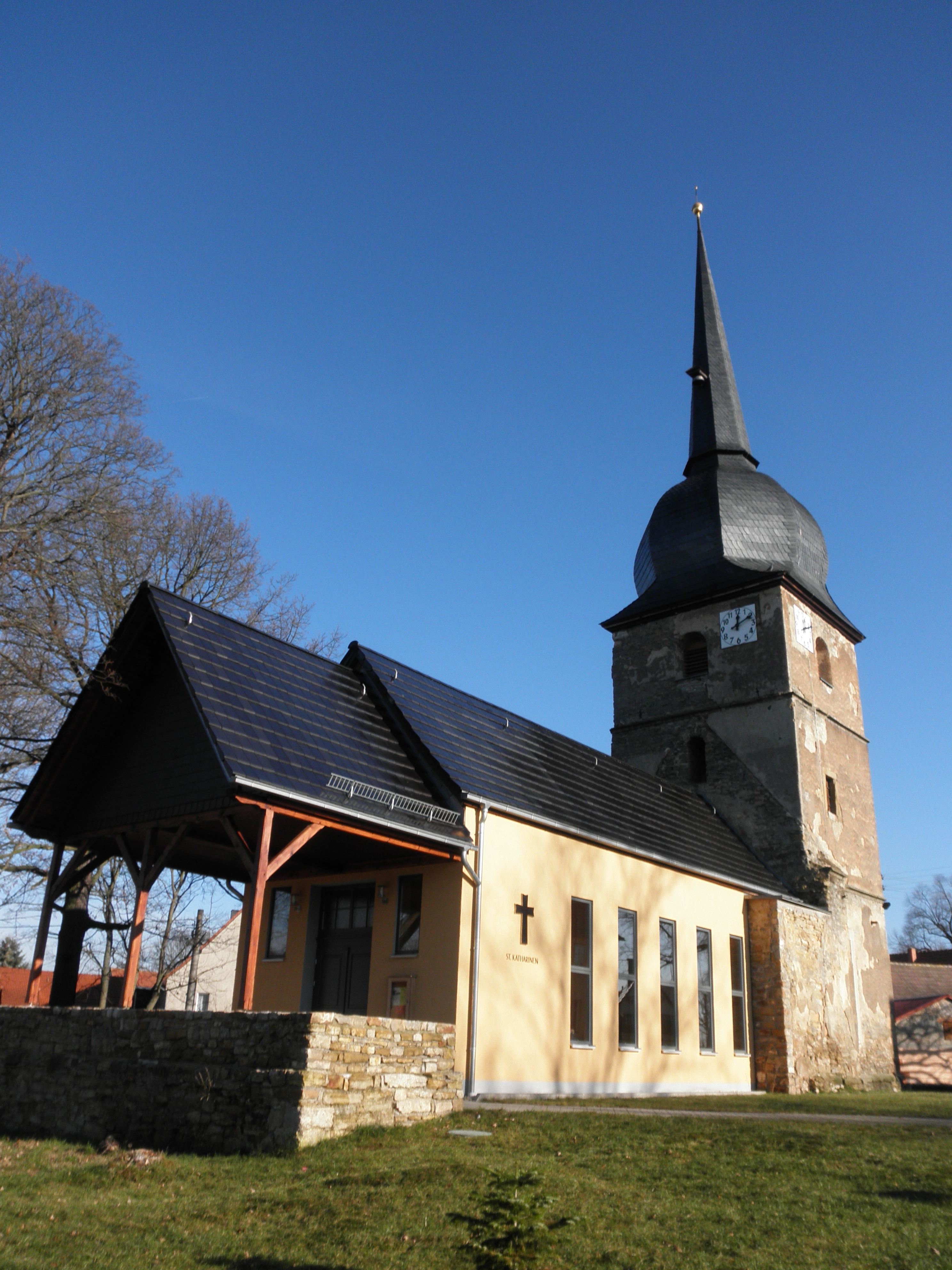 Church in Battgendorf in Thuringia